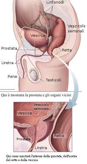 Prostate and bladder, sagittal section.